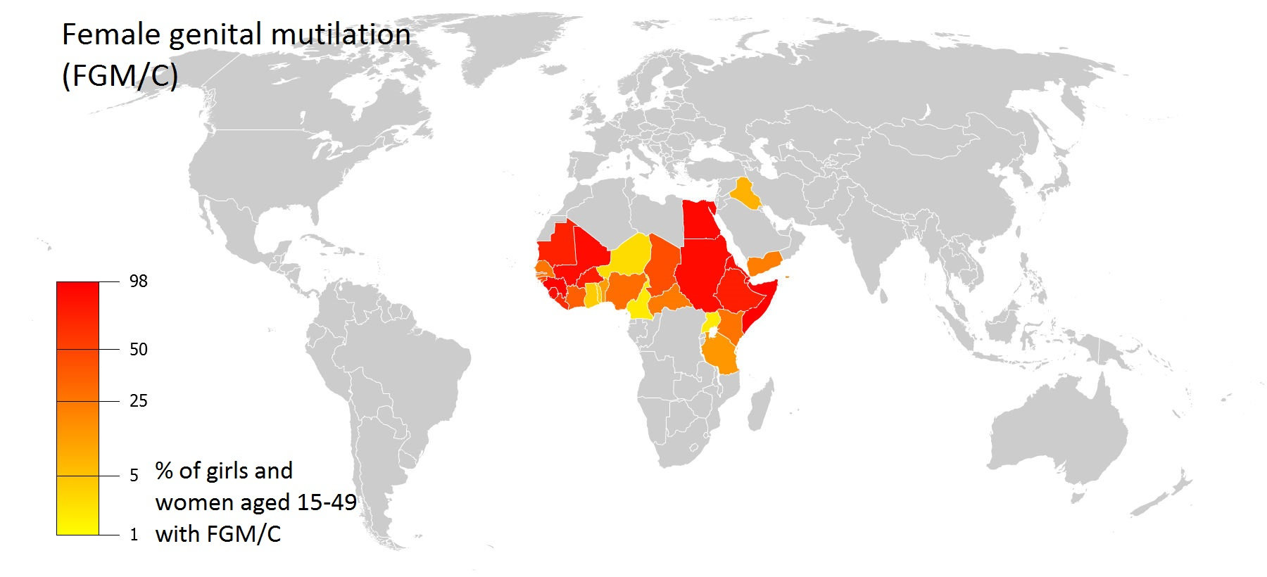 Female genital mutilation (FGM), also known as female genital cutting and female circumcision, is defined by the World Health Organization (WHO) as "all procedures that involve partial or total removal of the external female genitalia or other injury to the female genital organs for non-medical reasons". This map shows the % of girls and women aged 15-49 years who have undergone FGM/C. Data source: UNICEF (2013), United Nations Children’s Fund, Female Genital Mutilation/Cutting: A statistical overview and exploration of the dynamics of change, New York. The FGM/C data table is mirrored at World DataBank, Gender Statistics: Note: Gray colored countries are those where FGM/C is not concentrated, according to UNICEF. On page 23, the 2013 UNICEF report states that while no nationally representative data on FGM/C are available, evidence suggests it is practiced in pockets of Europe and North America by immigrants from countries where FGM is common, as well as in parts of Jordan, Oman, Saudi Arabia, Indonesia and Malaysia.